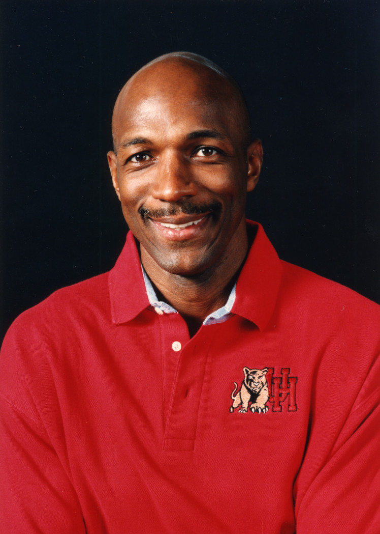 Formal head shot of Clyde Drexler